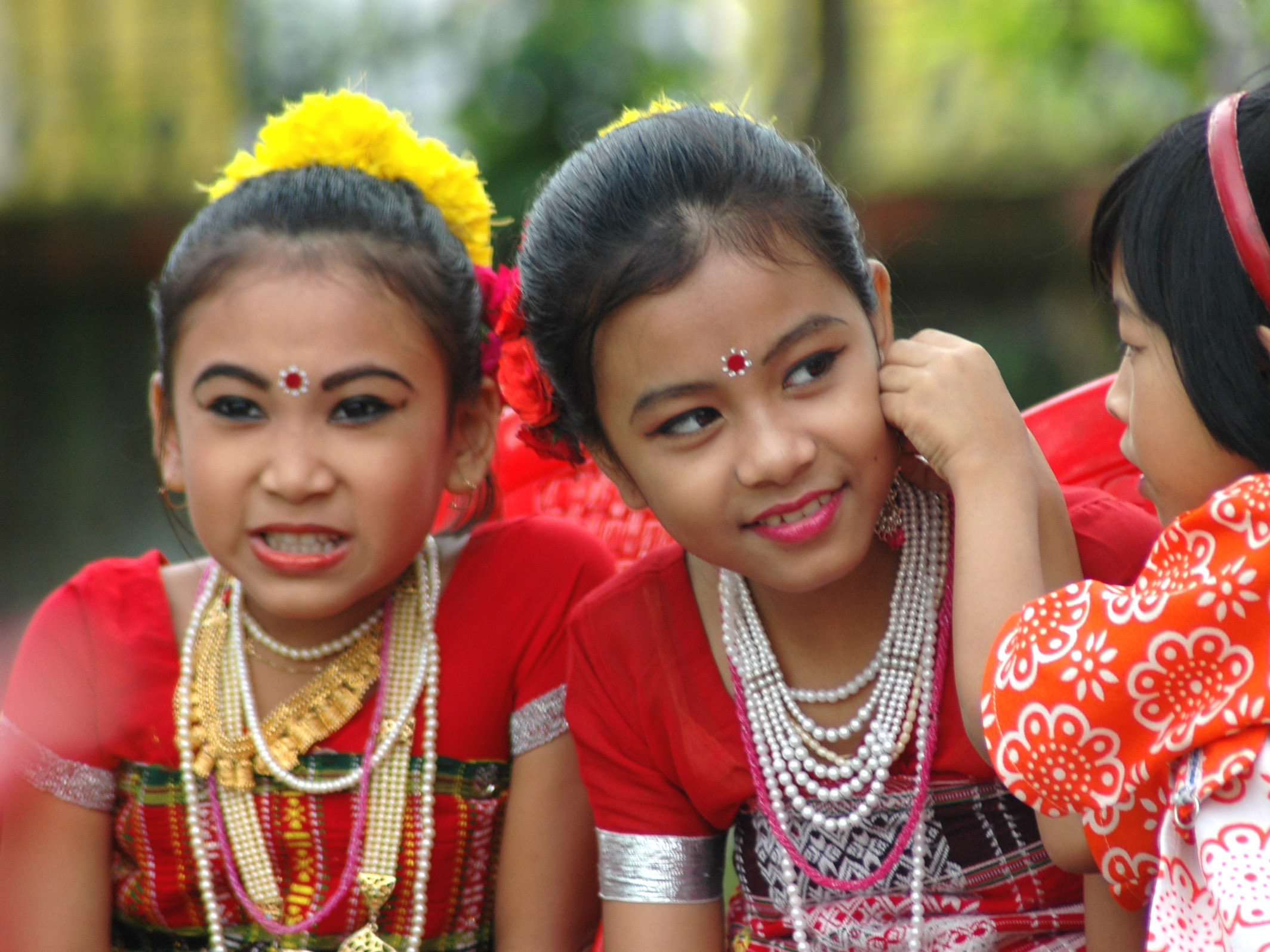 Tripuri children preparing for a function.